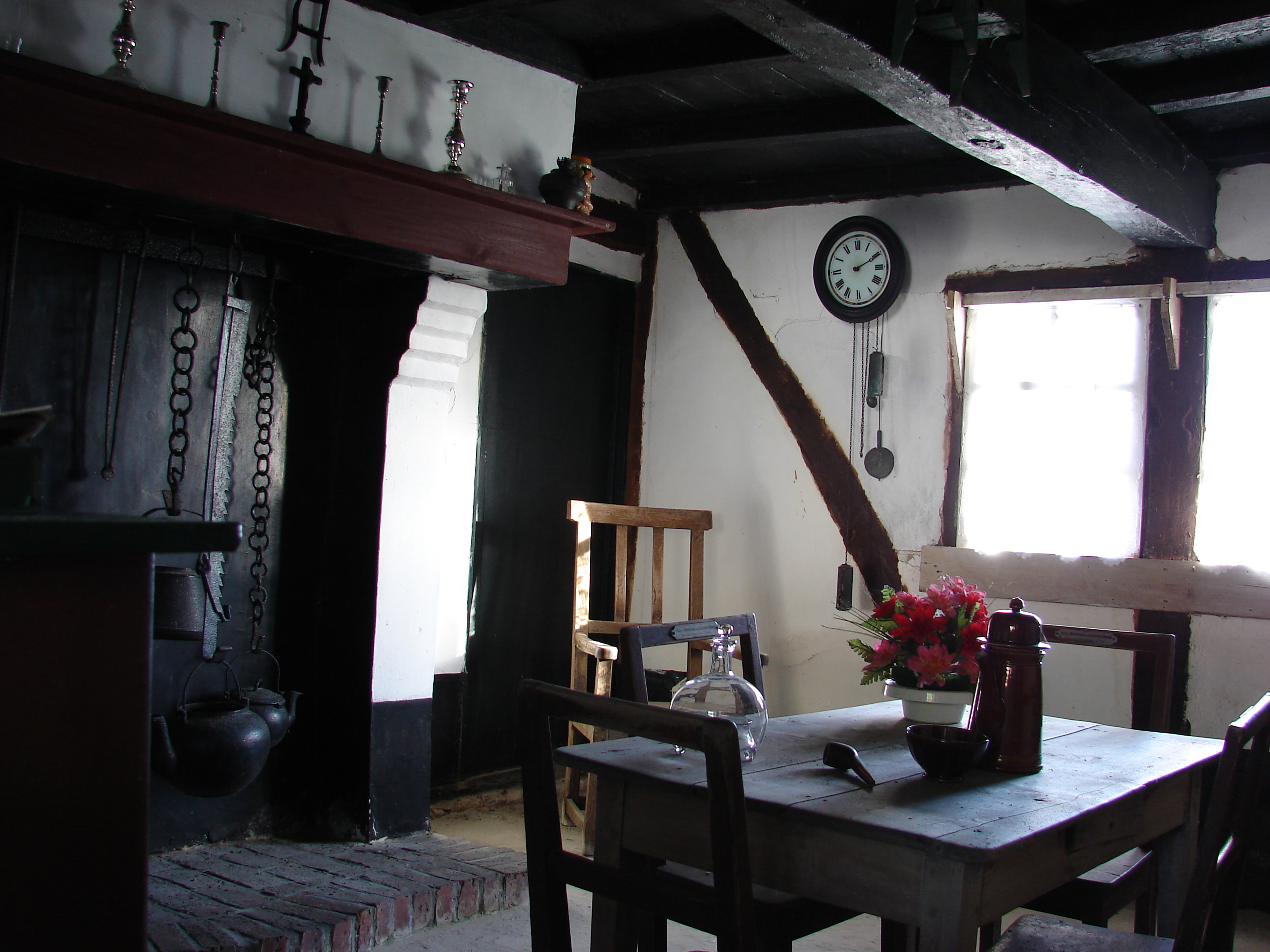 Living room of the former home of Holy Amandina